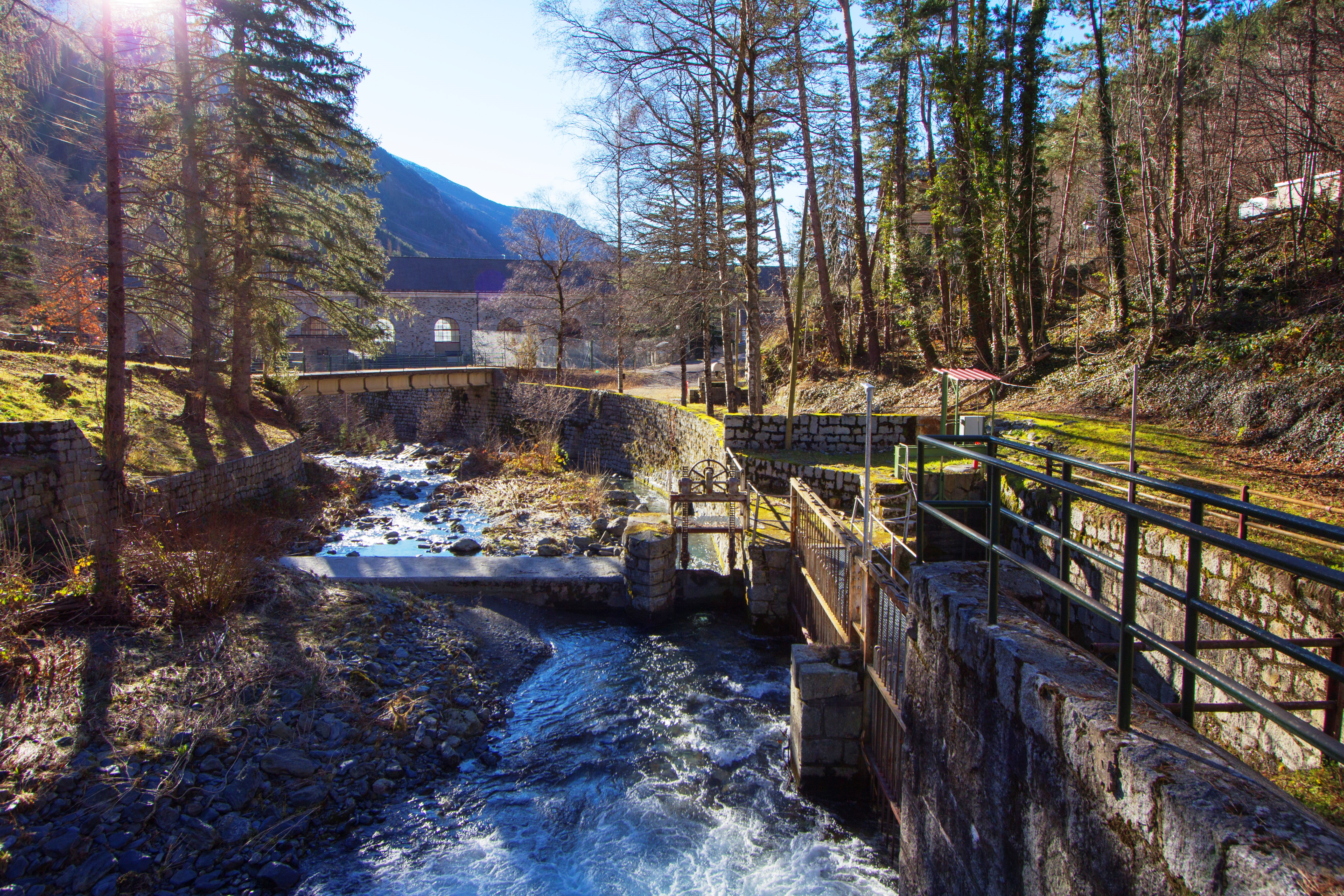 Molinos hydropower plant. Damm and water intake to the forebay tank. Background, Capdella hydroper plant. Torre de Capdella (Catalan Pyrenees)